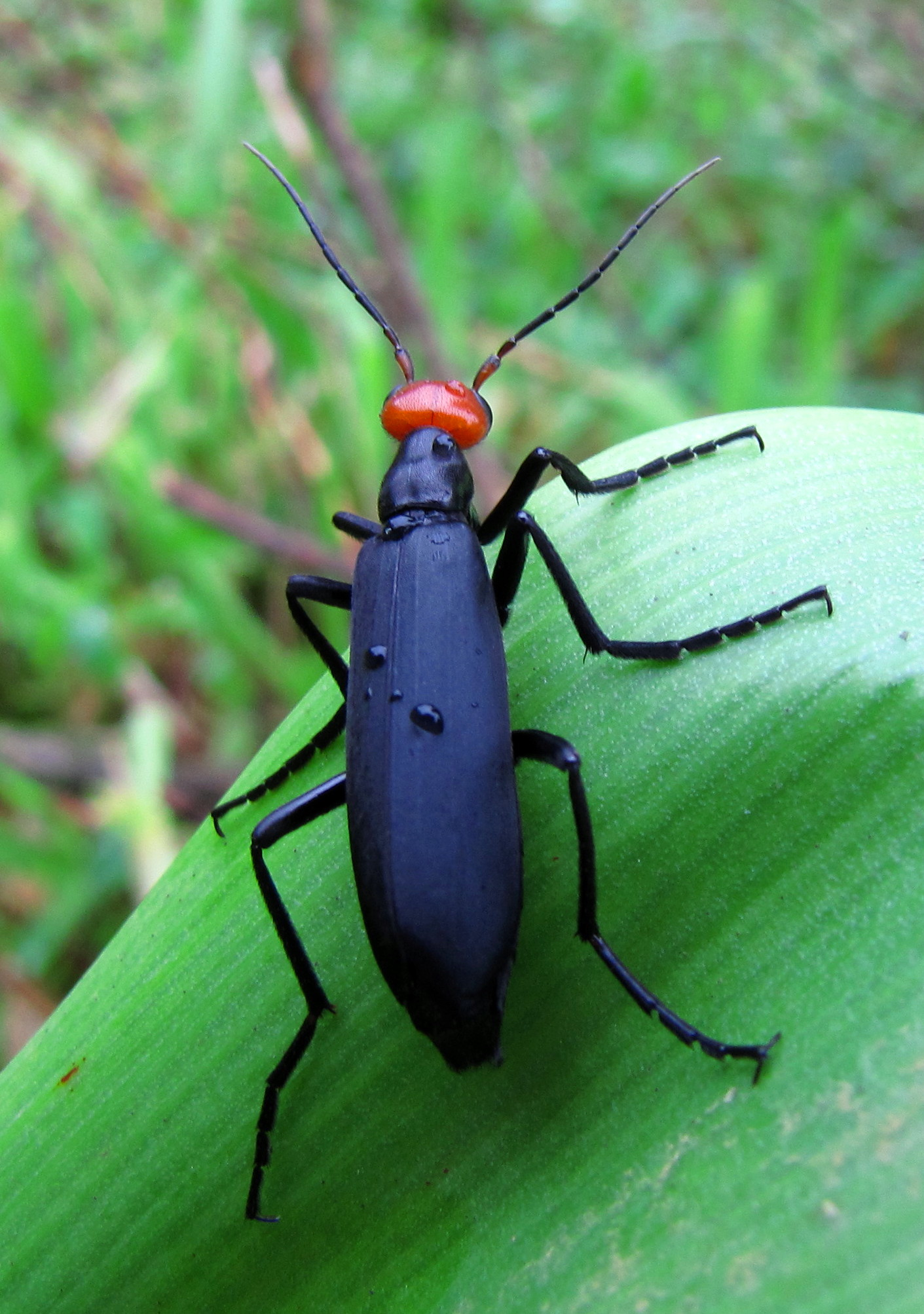 Epicauta hirticornis (Haag-Rutenberg, 1880) from Agumbe